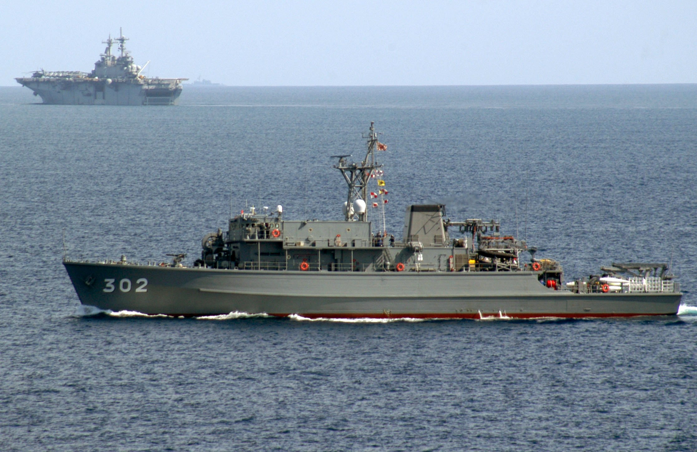 PHILIPPINE SEA (Nov. 12, 2009) - The Japan Maritime Self-Defense Force minesweeper Tsushima (MSO-302) simulates clearing a path for the forward-deployed amphibious dock landing Ship USS Tortuga (LSD 46). Tsushima and Tortuga are conducting a navigational lead through exercise as part of Annual Exercise 2009, a bilateral exercise conducted by the U.S. and the Japan Maritime Self-Defense Force. (U.S. Navy photo by Mass Communications Specialist Seaman Andrew Smith/Released)